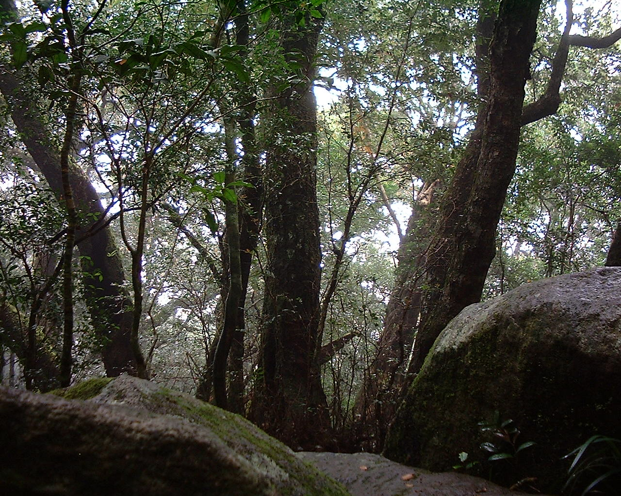 Antarctic Beech trees (Nothofagus moorei) at "Tullawallul" in Lamington National Park, about 3 kilometres via walking track from Binna Burra.